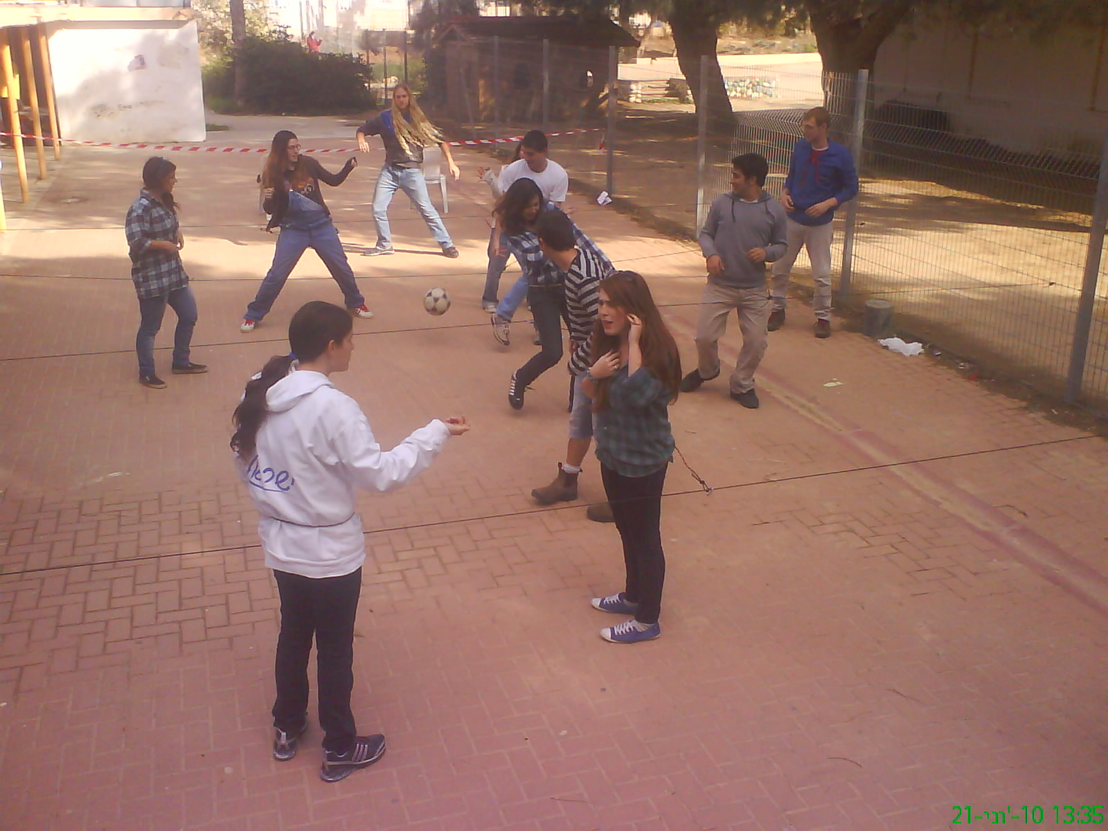 A parody game - the football is played as foosball - the players are tide to cabels thet alows them to move only right and left